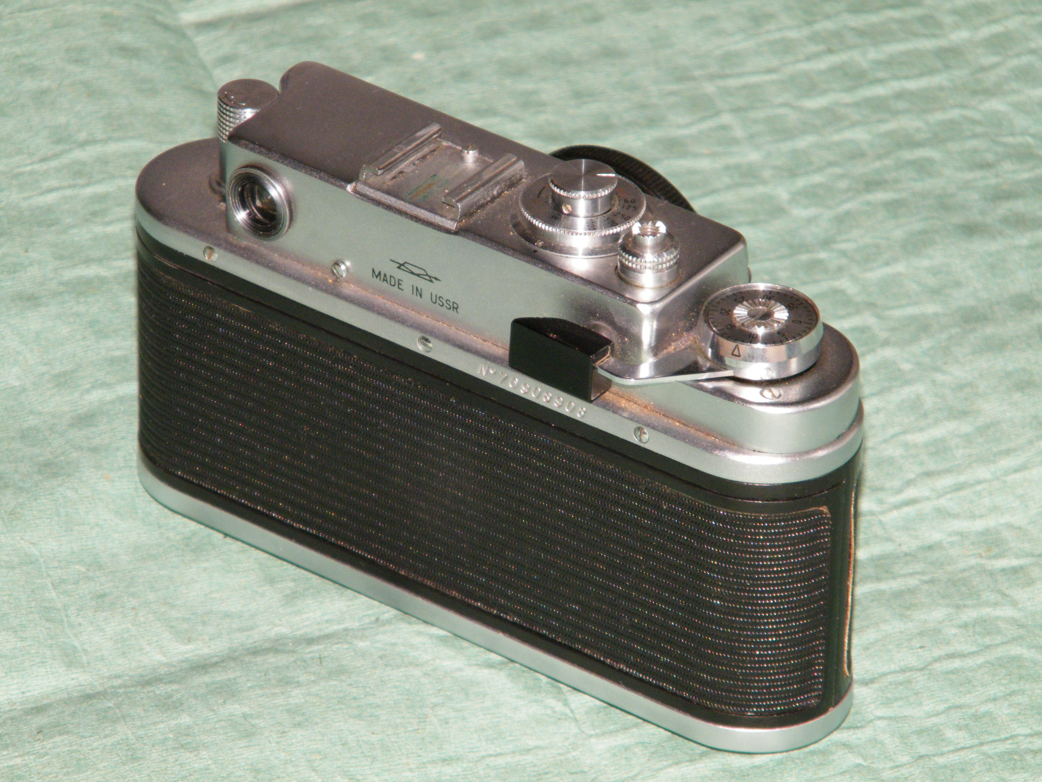 Zorki 4